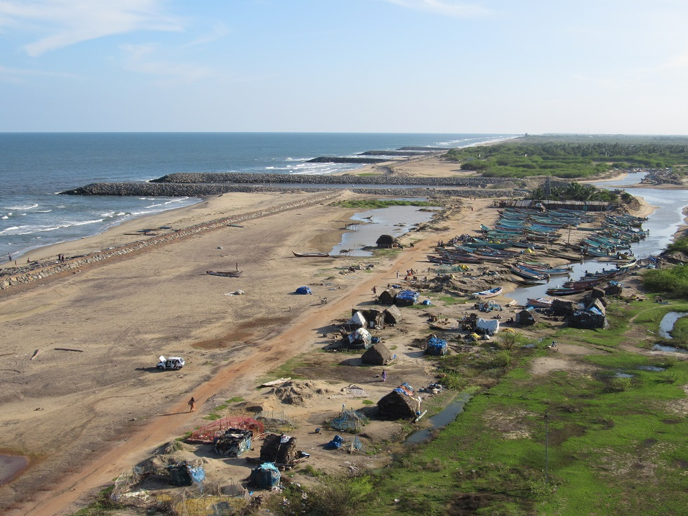 Poompuhar-Kaveri-Puhum-Pattinam-View-from-Lighthouse